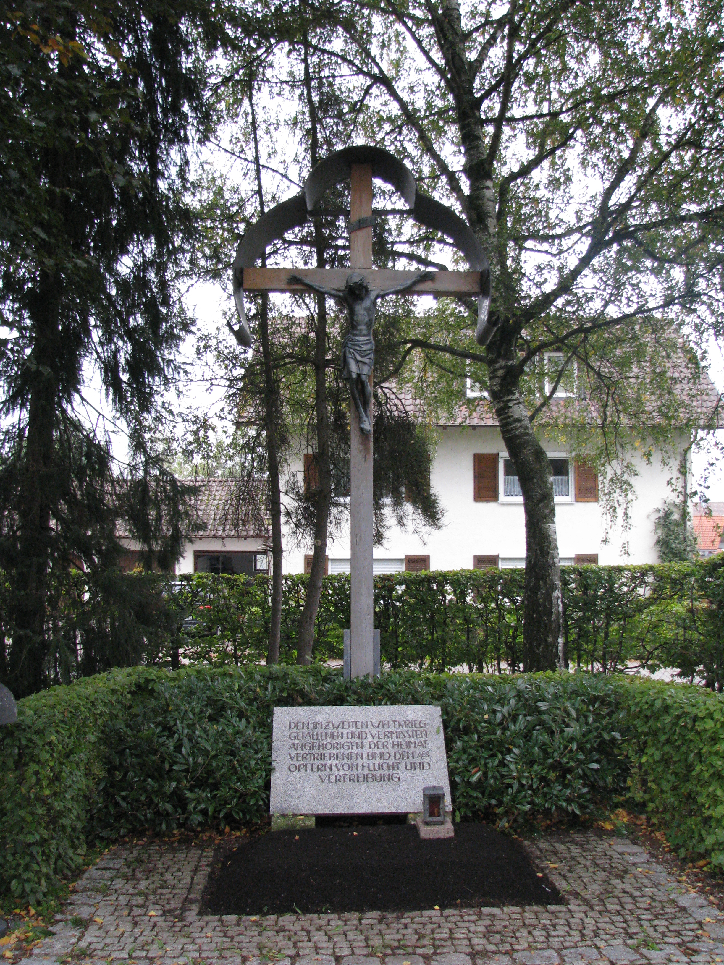 Kruzifix Heiligkreuz